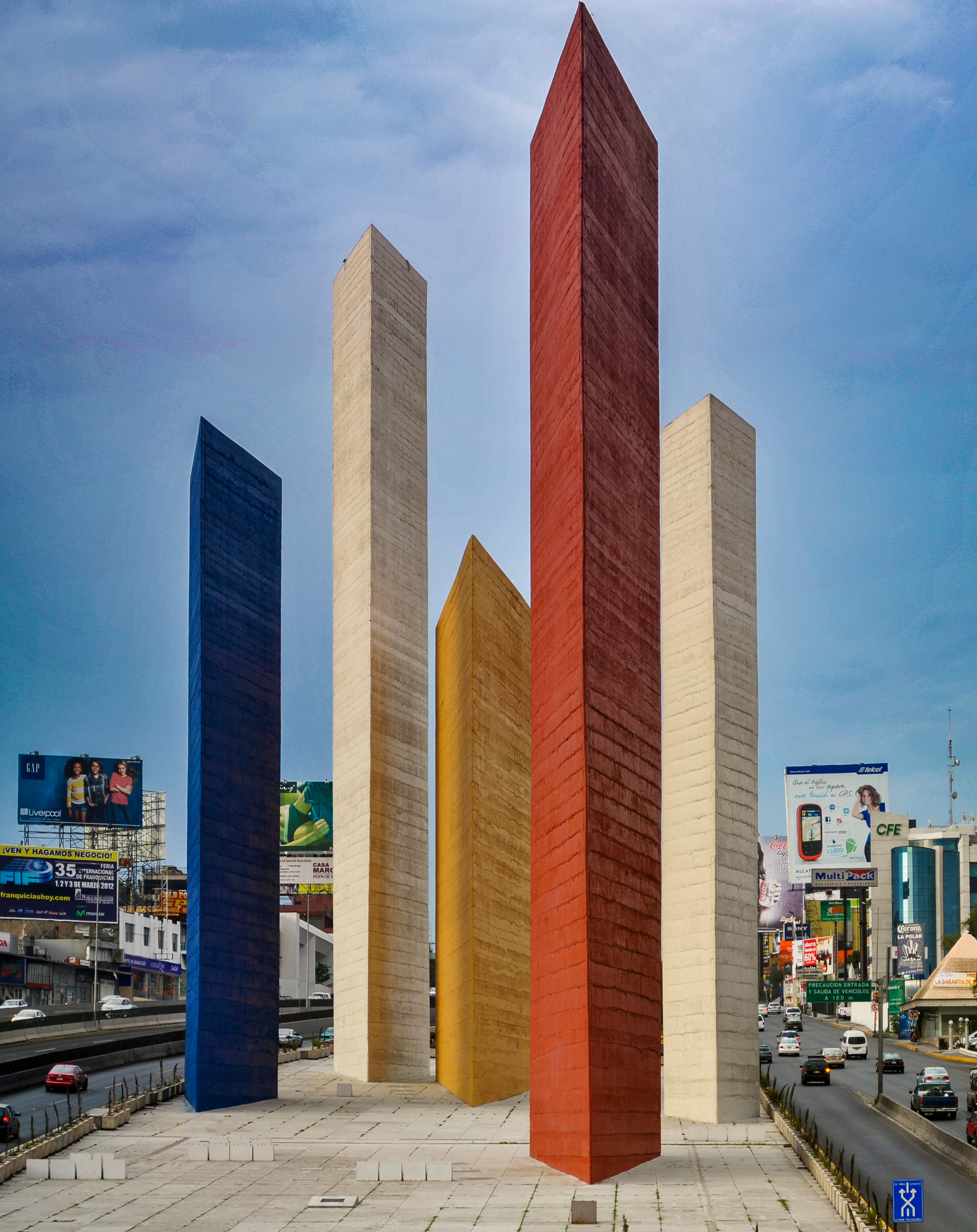 Torres de Satélite, sculptures by Mathías Goeritz, Luis Barragán and Jesús "Chucho" Reyes Ferreira. Composed with three images.